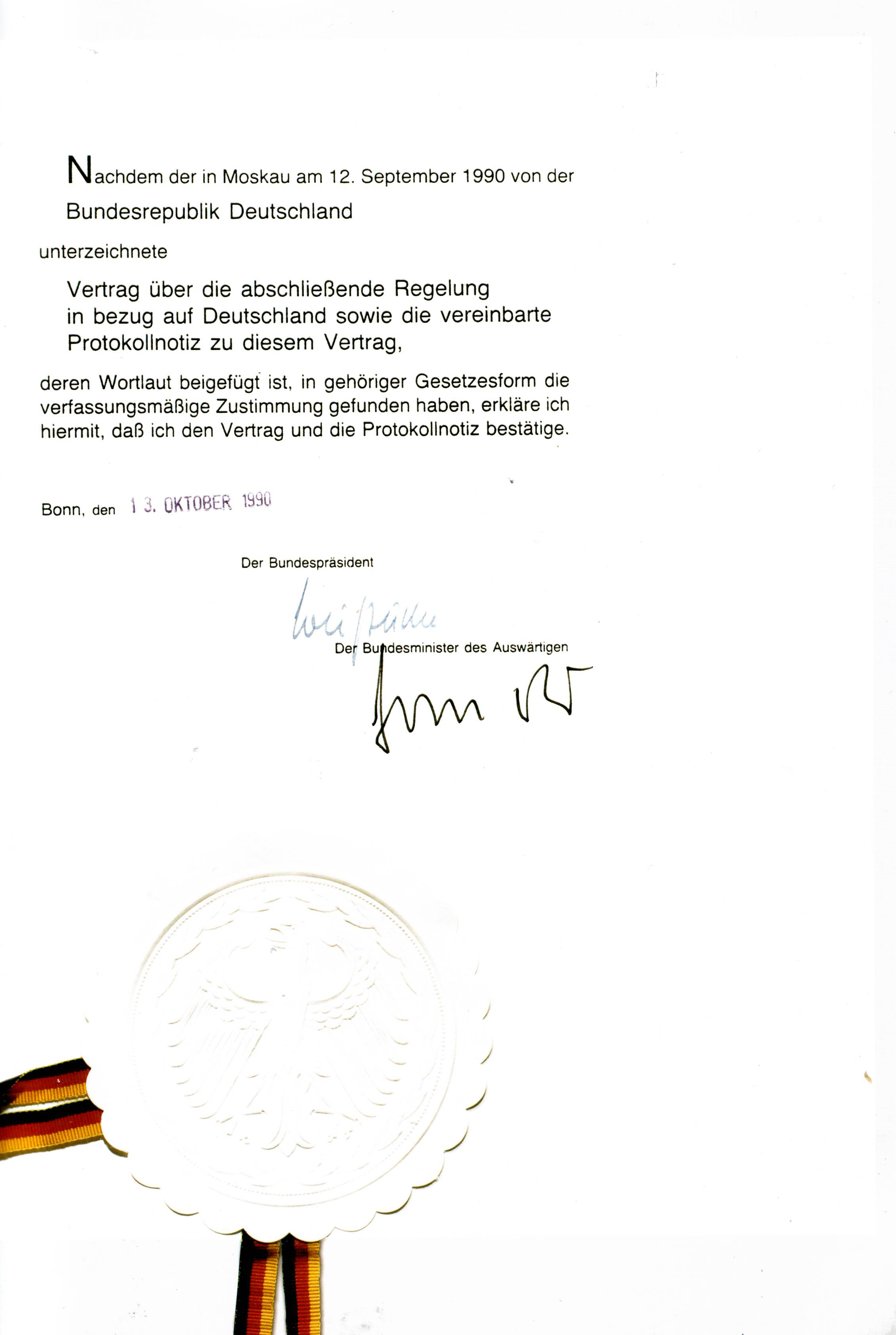 Germany's ratification of the Final settlement, dated October 13, 1990